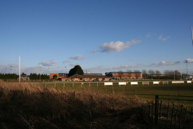 Hithercroft sports facility The building you can see in the foreground is Hithercroft sports facility; the ones behind it are some new industrial units which have gone up in the last few years.